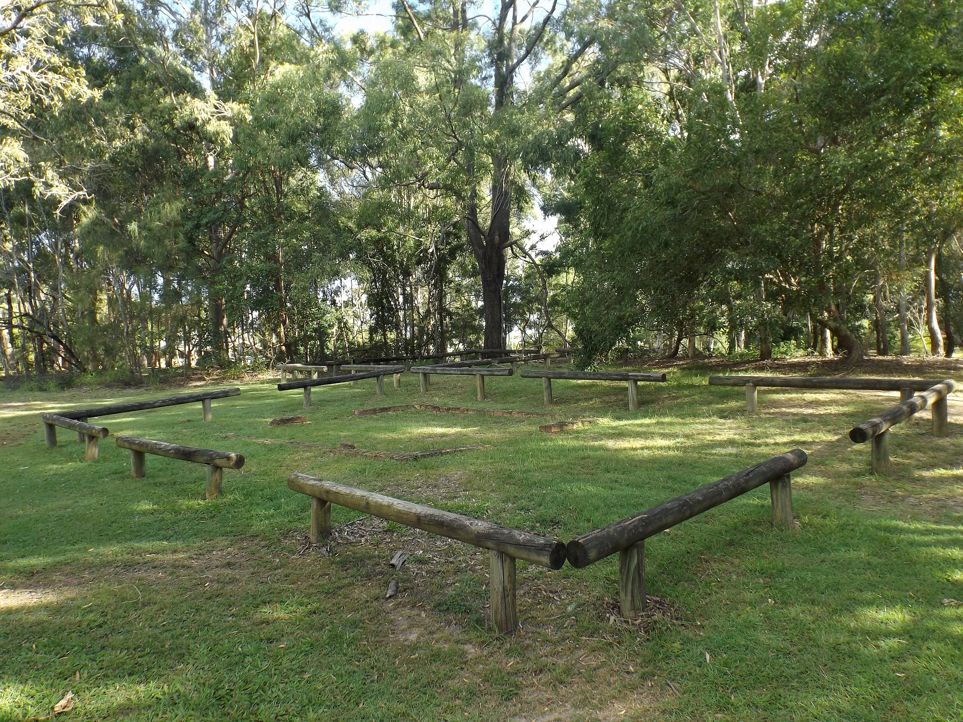 Photo of the fenced area containing the remains of the Ormiston Fellmongery at Orminston Park, Ormiston, City of Redlands, Queensland, Australia.